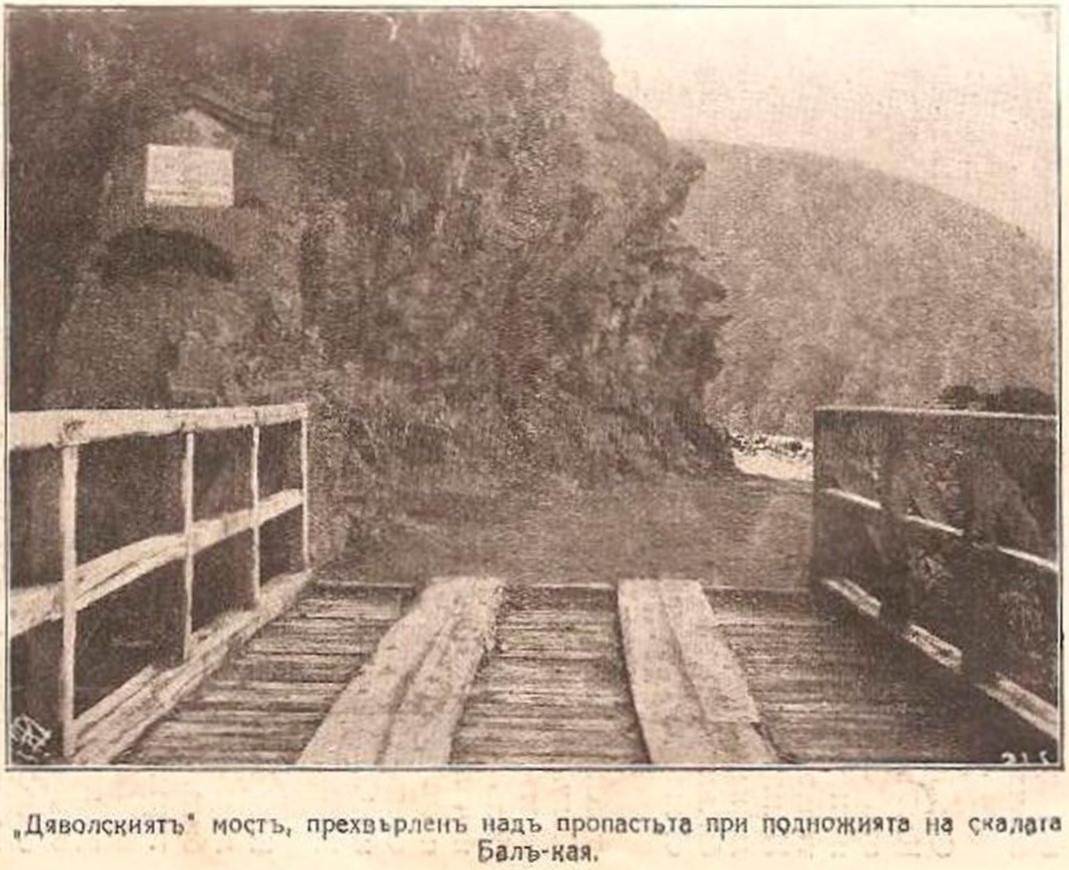 The "Dyavolski most" bridge in Belasitsa mountains